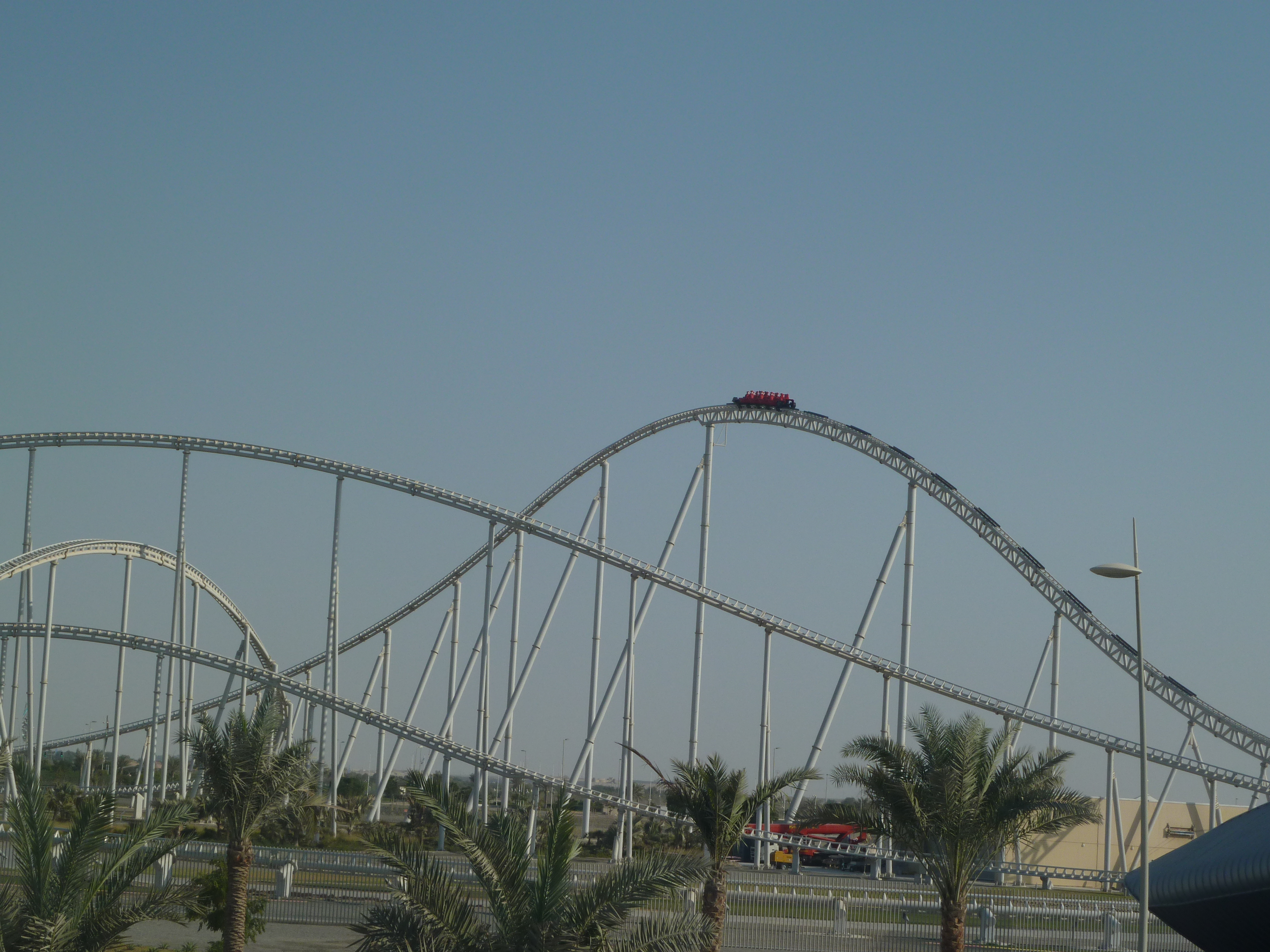 Formula Rossa roller coaster, Ferrari World Abu Dhabi